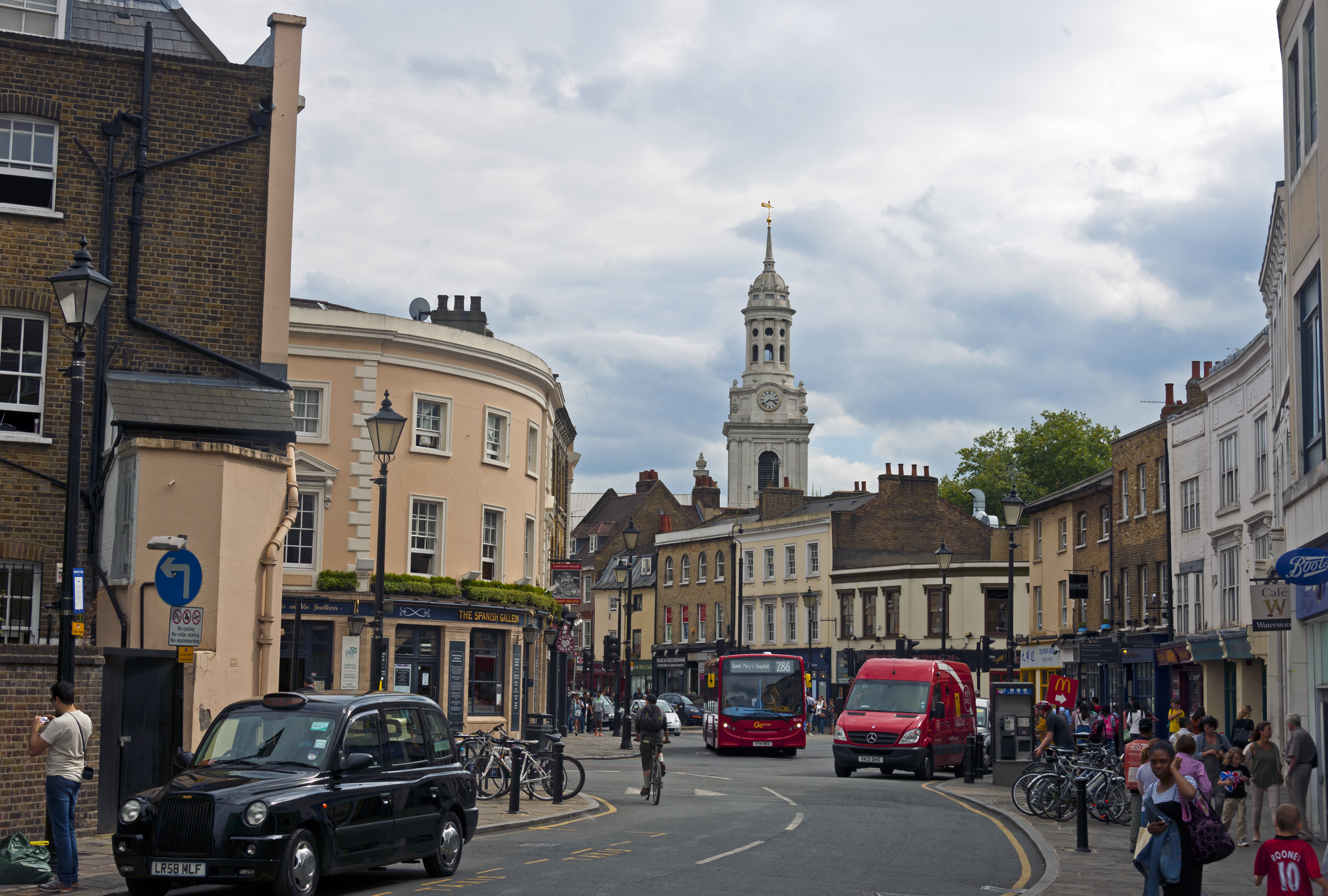 Street scene in the center of Greenwich, London